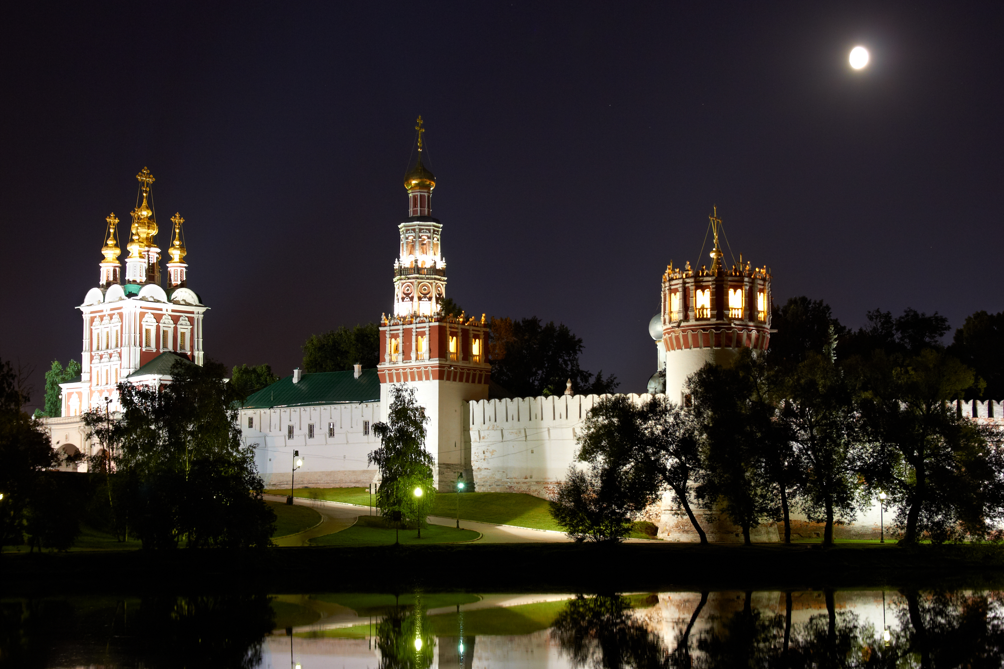 Novodevichy Convent